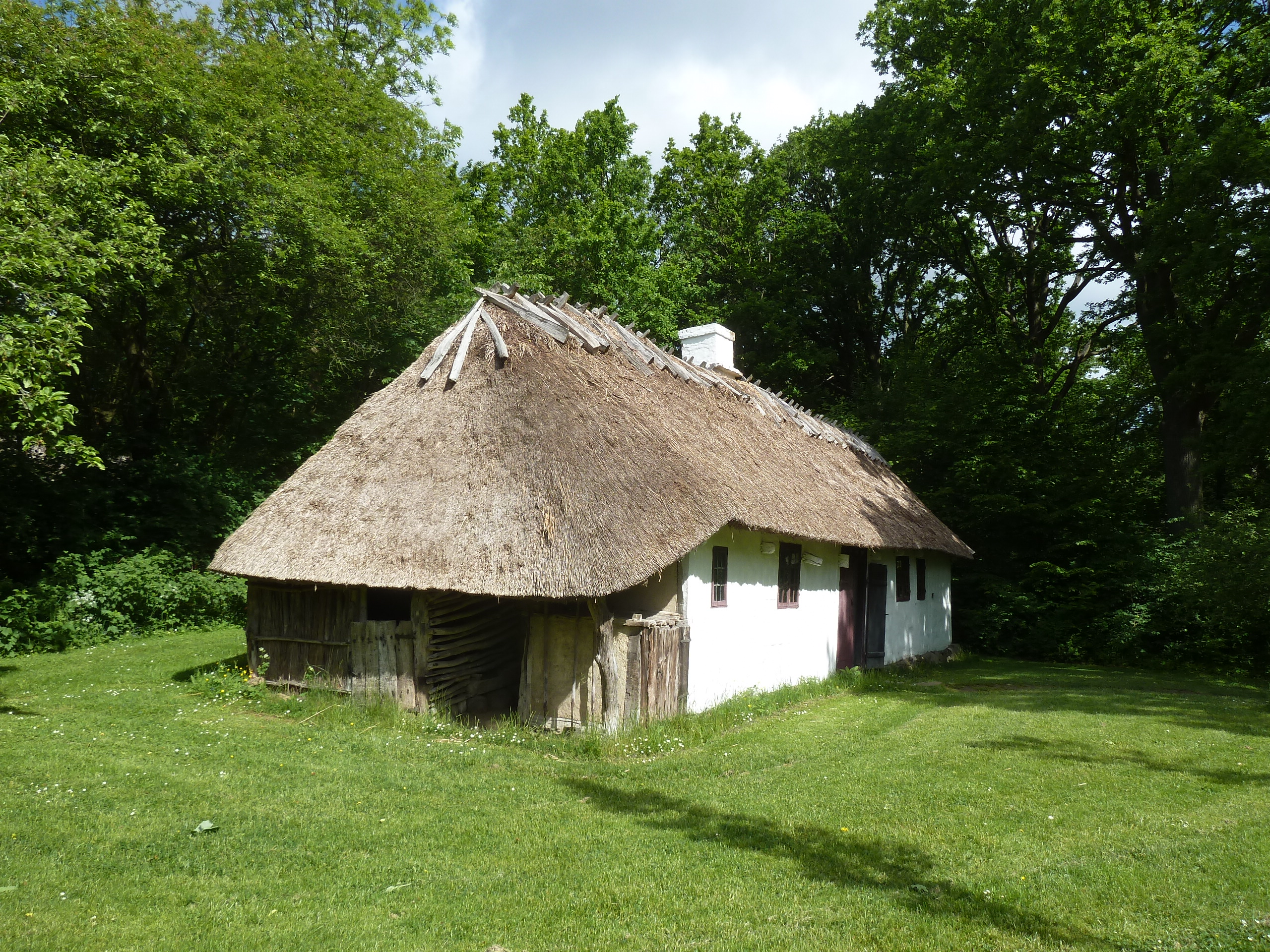 Weavers house from Tystrup, Sjælland, now on Frilandsmuseet (the open air museum) north of Copenhagen.